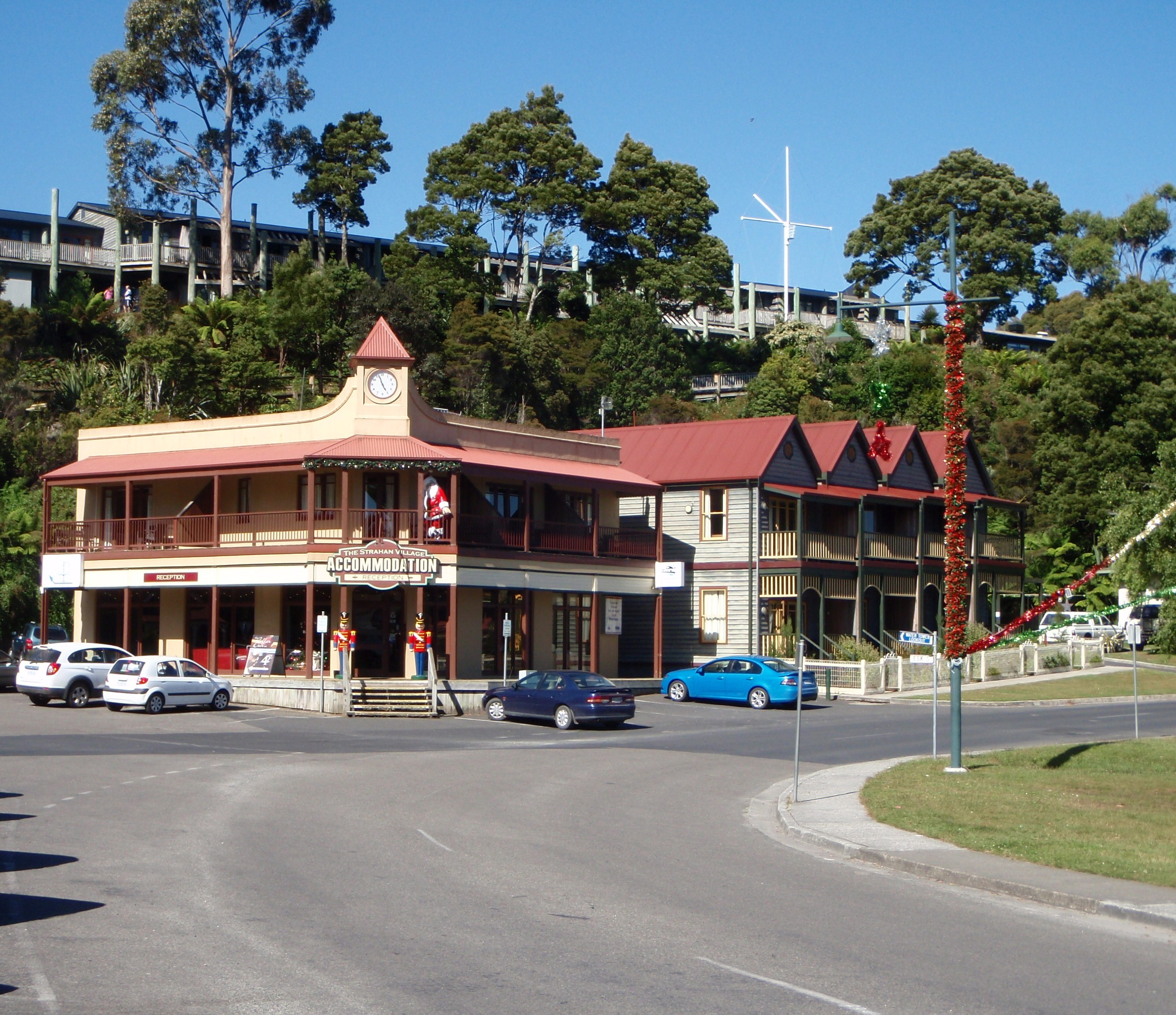 A view of part of the main street of Strahan, Tasmania